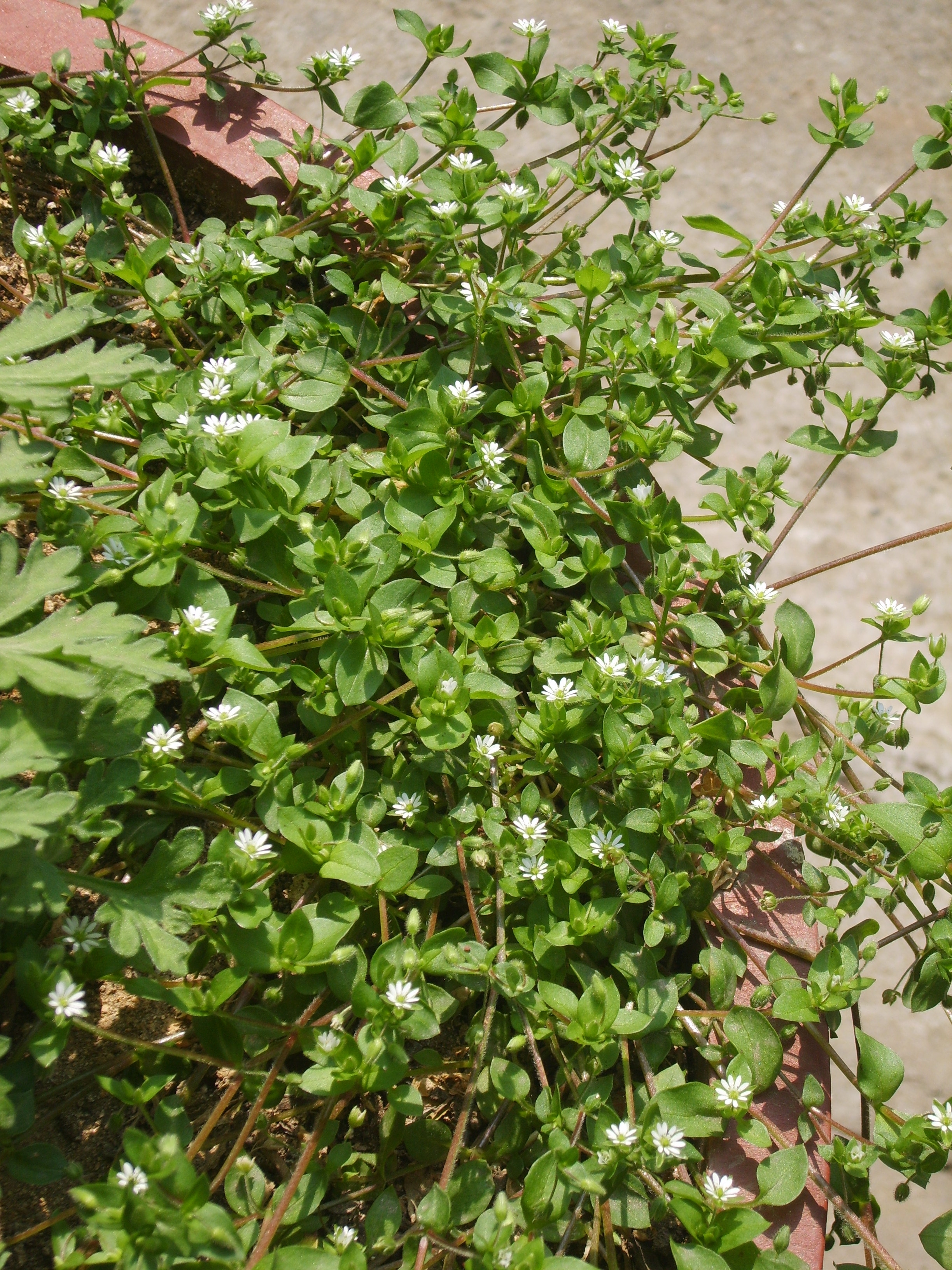 Stellaria media in Bupyung, Korea